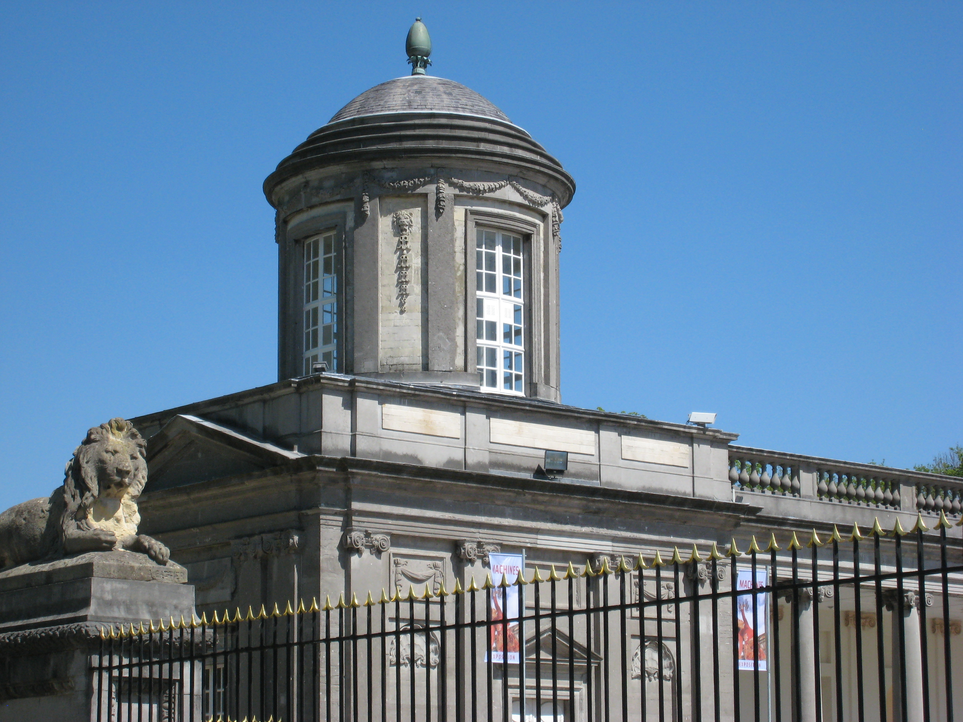 Pavilion at the end of the left galery (Chapel)